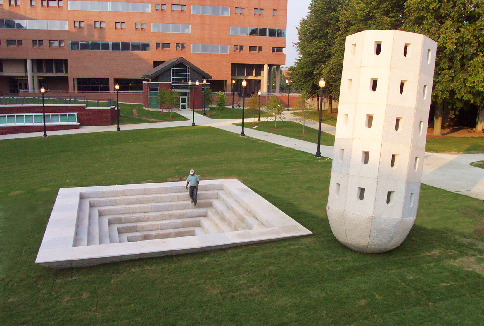 The Dove Tower and Steps to the Bottom of a Pyramid, 2004 Stone 22 x 39 x 48 feet Located at the University of Connecticut at Storrs; CT Commission on the Arts